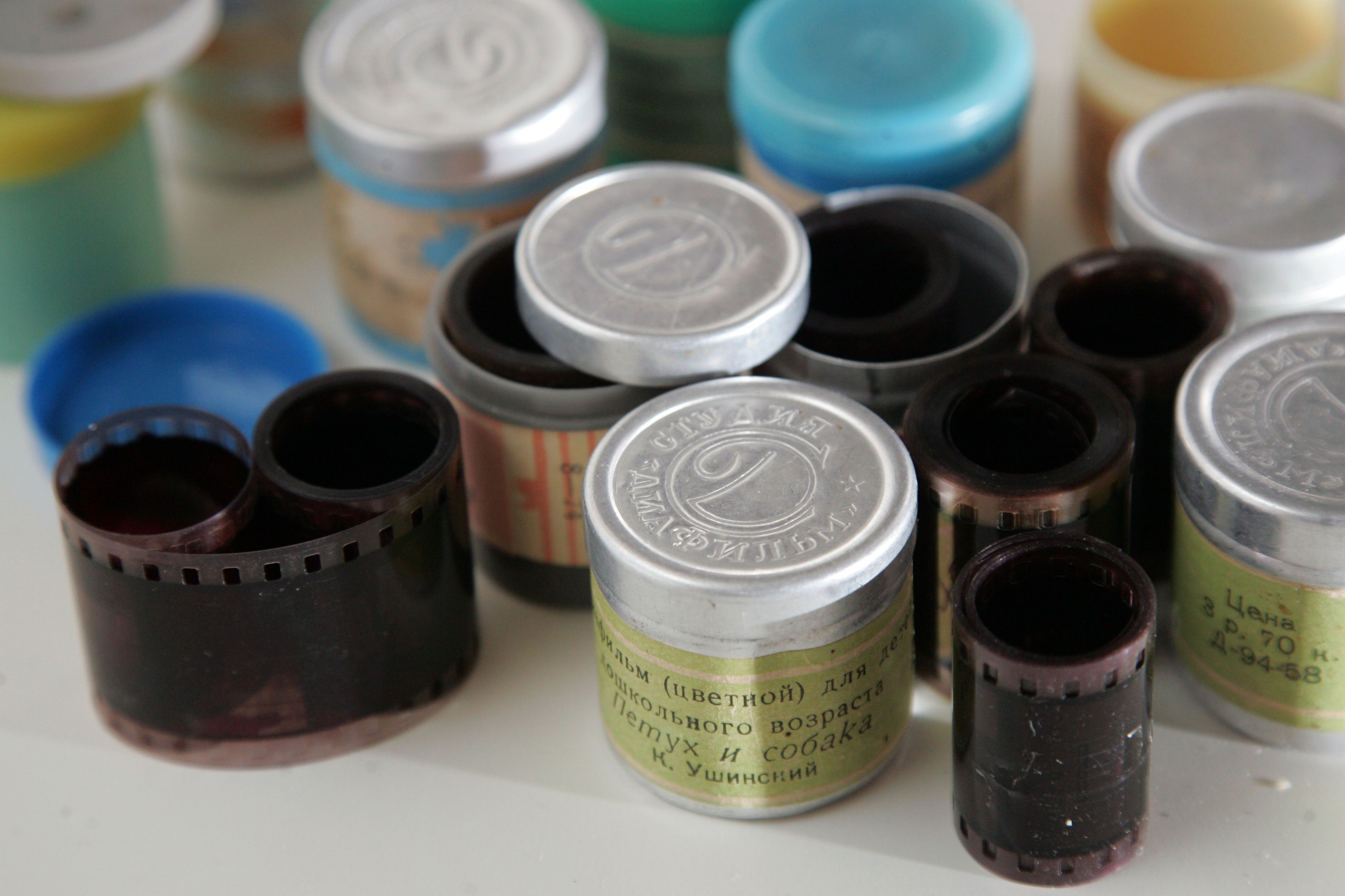 Russian 'Diafilm' set with boxes. Diafilm was a way to show picture stories with text description through 35-mm positive film.